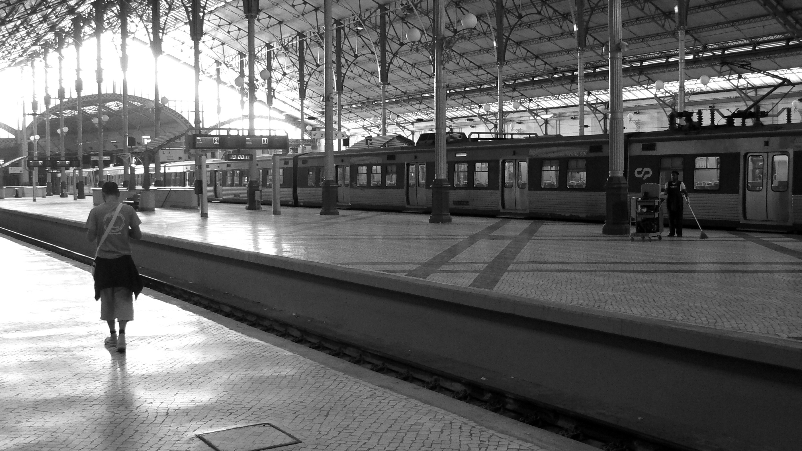 Rossio railway station interior